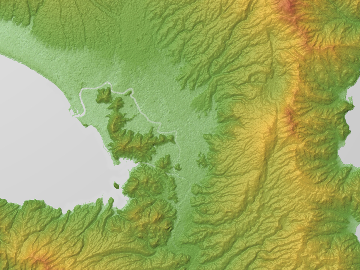 Tagata Plain in Shizuoka Prefecture, Honshu, Japan.